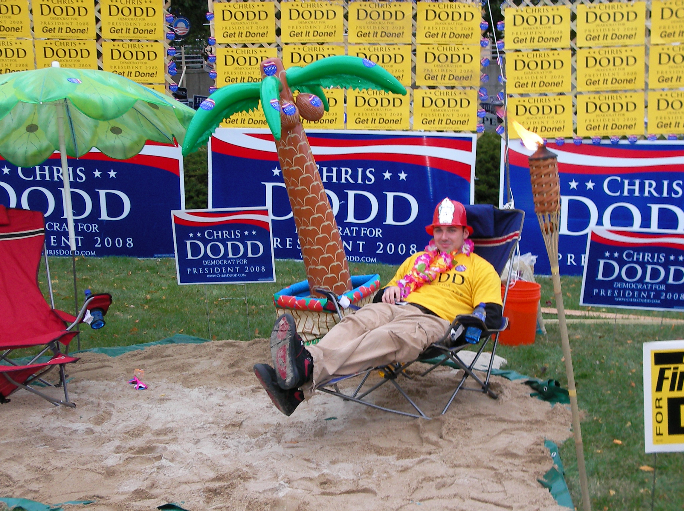 Chilly temperatures in Des Moines didn't hinder this Dodd supporter from spending some time on the beach.